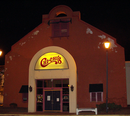 Photo of a shuttered Chi-Chi's Mexican Restaurant taken by Nostaljack on a digital camera.